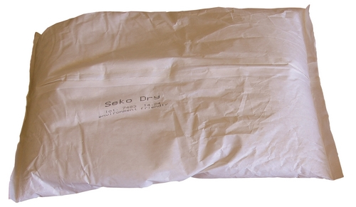 Humidity absorber Sekodry